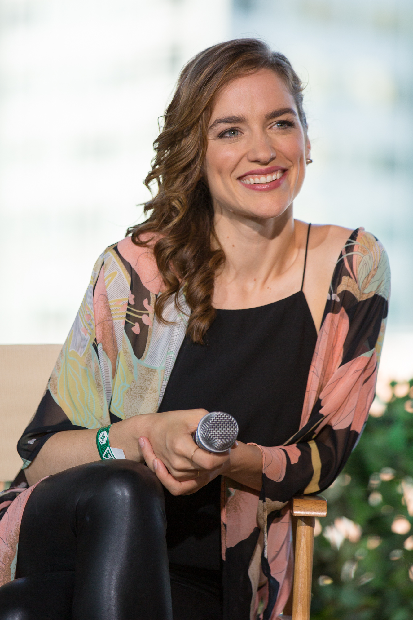 Melanie Scrofano at the Wynonna Earp discussion at Camp Conival in San Diego